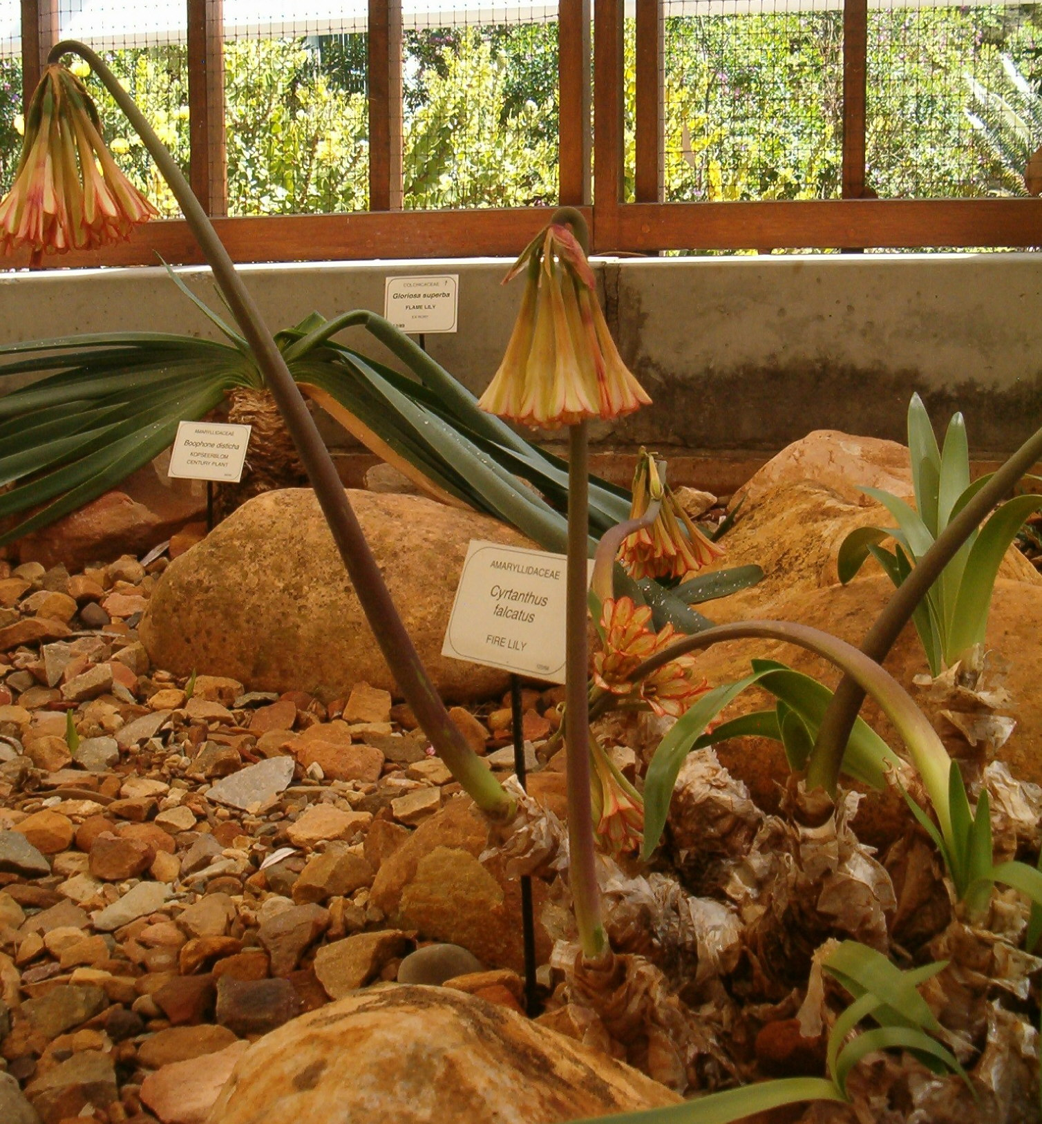 At Kirstenbosch National Botanical Gardens Species Cyrtanthus falcatus